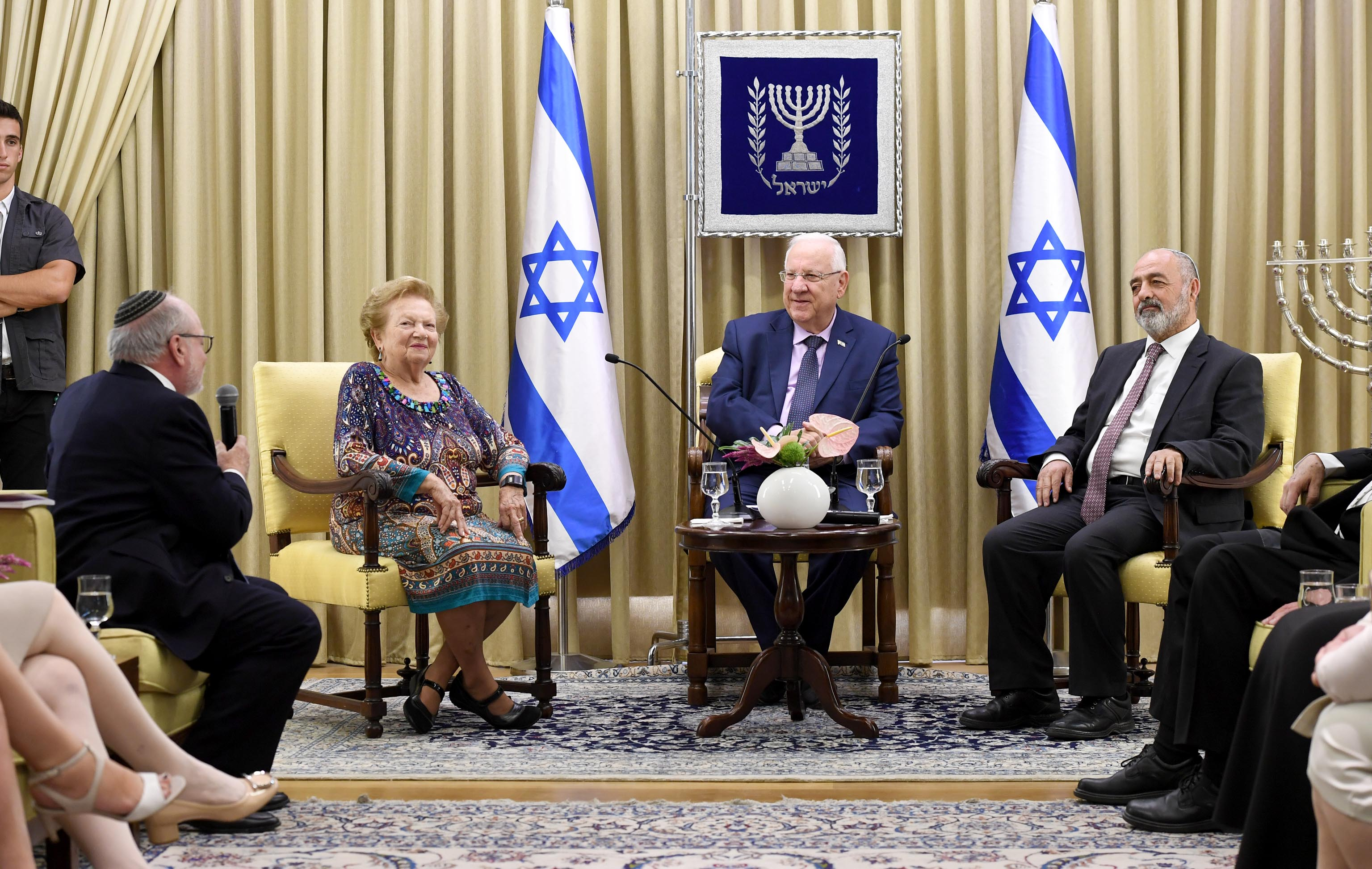 The President of the State of Israel, Reuven Rivlin, met with the Katz Prize winners for the implementation of Halakhah in modern life. Sunday, July 16, 2017. Photo Credit: Mark Neyman / GPO.